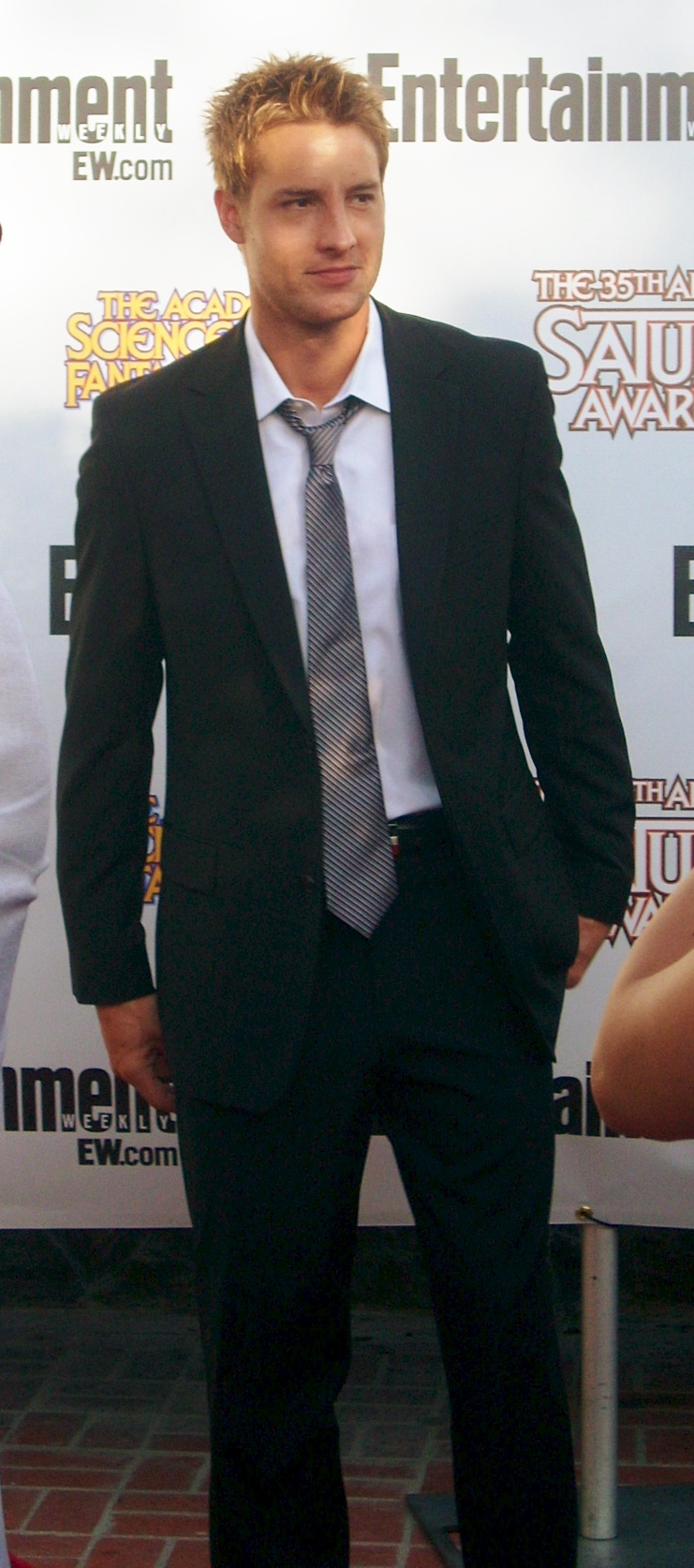 Justin Hartley at the 35th Annual Saturn Awards, Burbank, Calif. - June 24, 2009